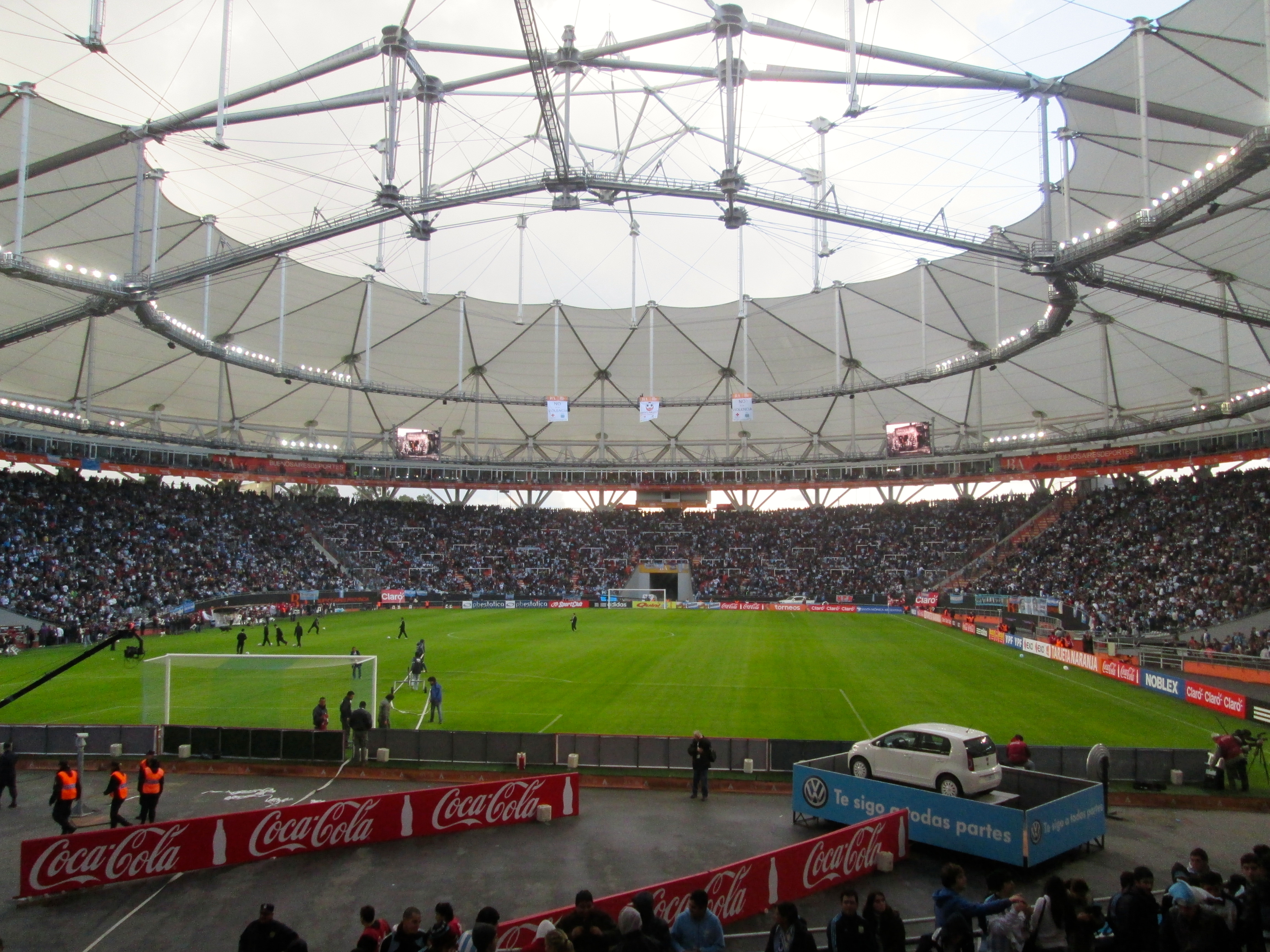 Interior of the Estadio Unico de Plata during a June 2014 friendly between Argentina and Slovenia